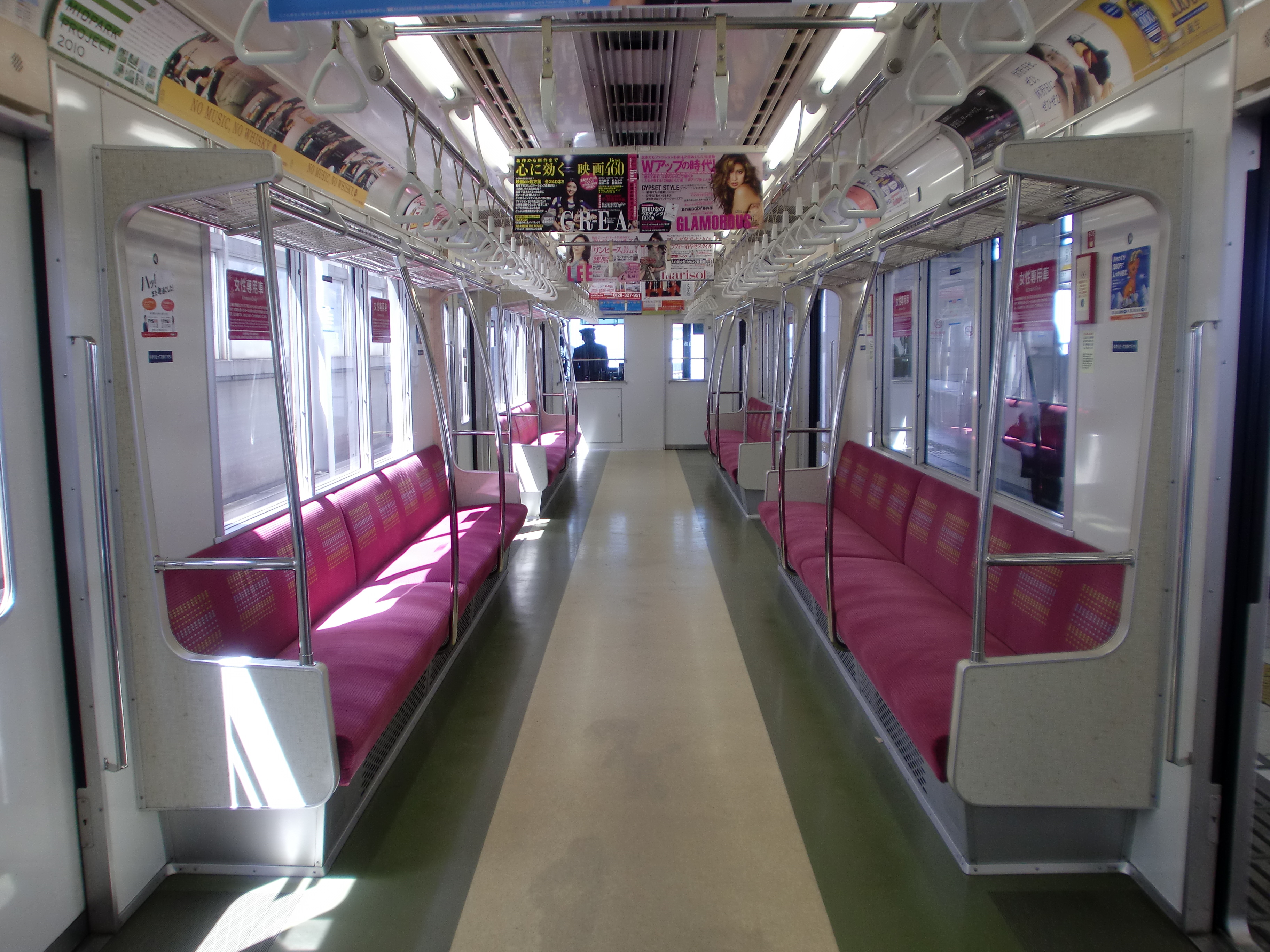 The interior of Tokyo Metro 03 series EMU car 03-802 of set 102